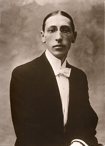 russian Composer Igor Stravinsky